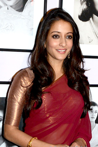 Raima Sen at the unveiling of coffee table book on Rambagh Palace, Jaipur in January 16, 2013